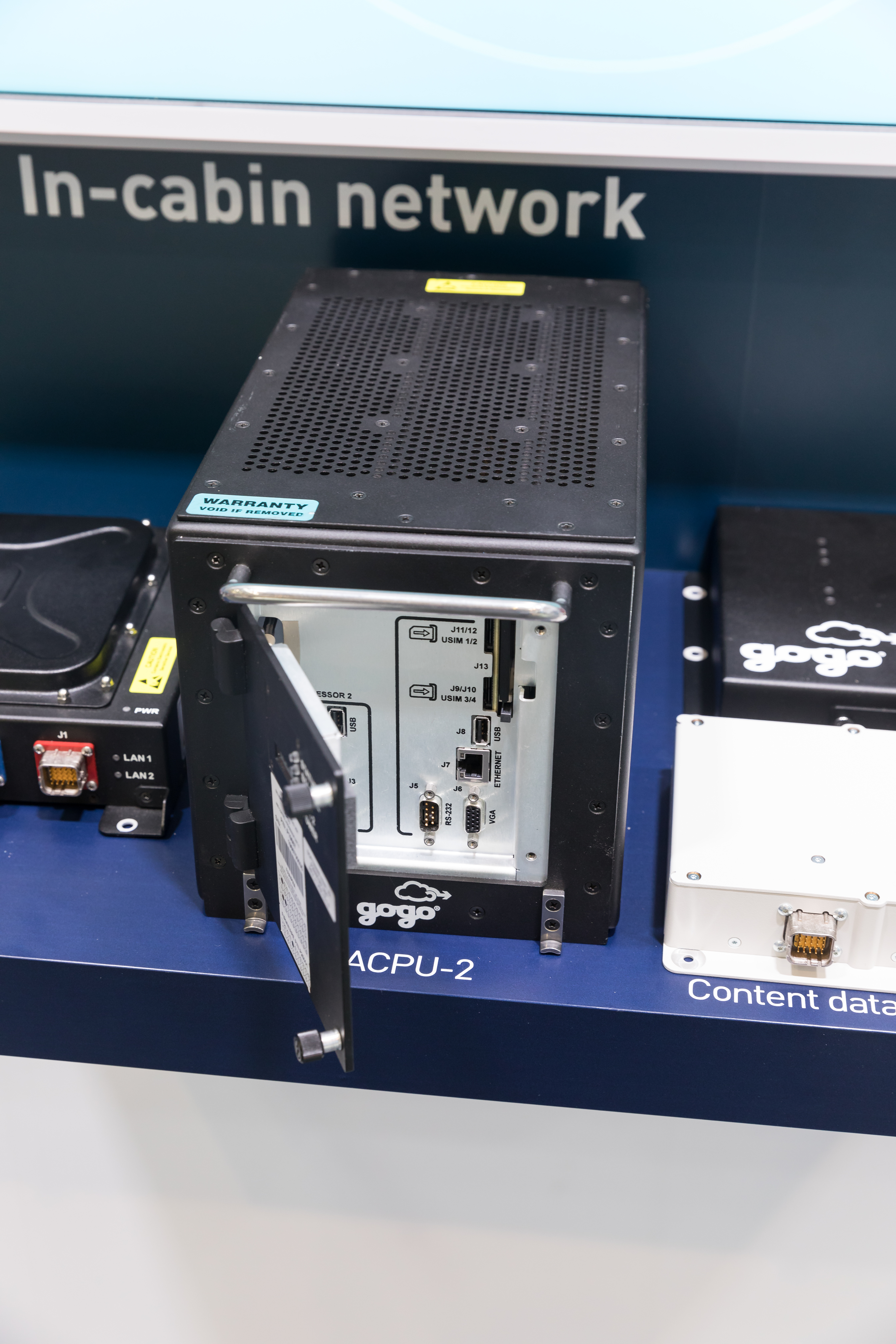 Passenger Experience Week 2018, Hamburg